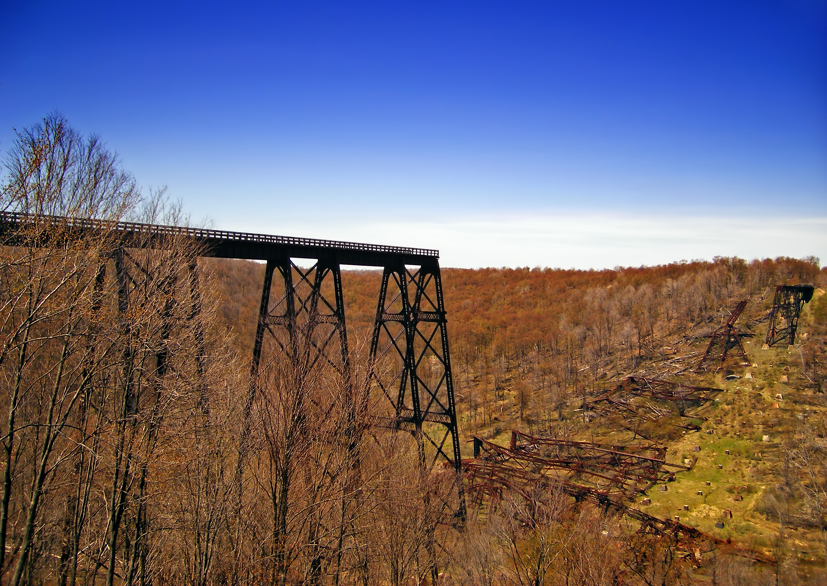 Remnants of the Kinzua Viaduct, a railroad bridge spanning the gorge of Kinzua Creek, McKean County. It was the tallest and longest bridge of its kind when it was built in the early 1880s. Its history is discussed here. A tornado collapsed a large section of the structurally weak bridge in 2003. The damage wasn't confined to the bridge; much of the surrounding forest was leveled. A revitalization project is set to begin; however, the bridge will not be rebuilt.